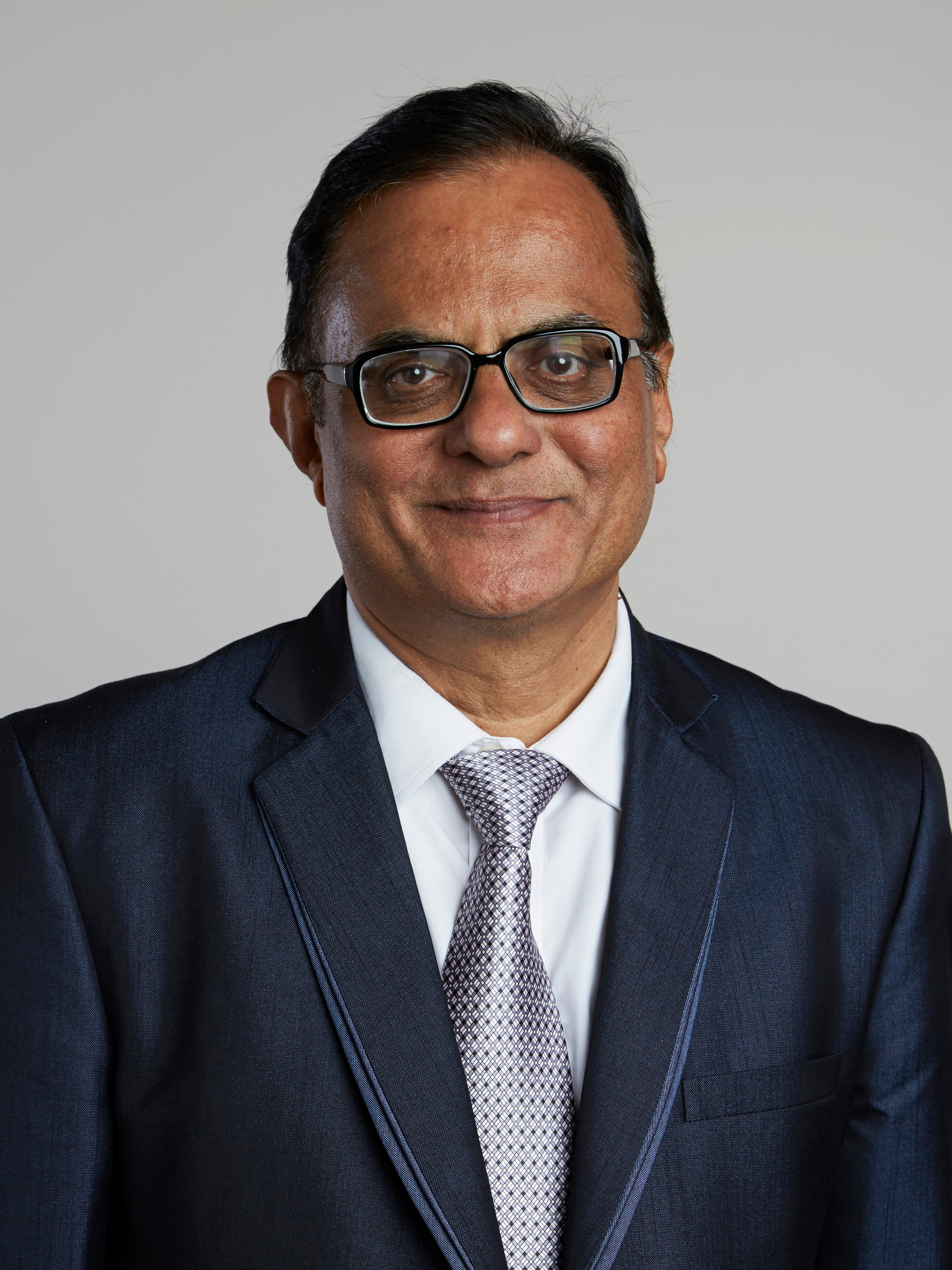 Ajay Kumar Sood is a professor in the Department of Physics at the Indian Institute of Science, Bangalore, India. Attribution: The Royal Society